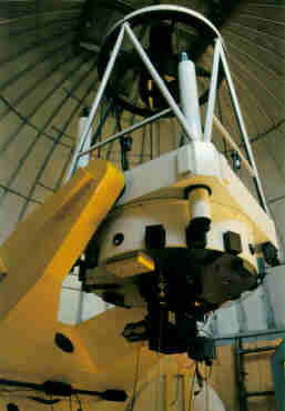 The 1.3m Telescope at NOFS